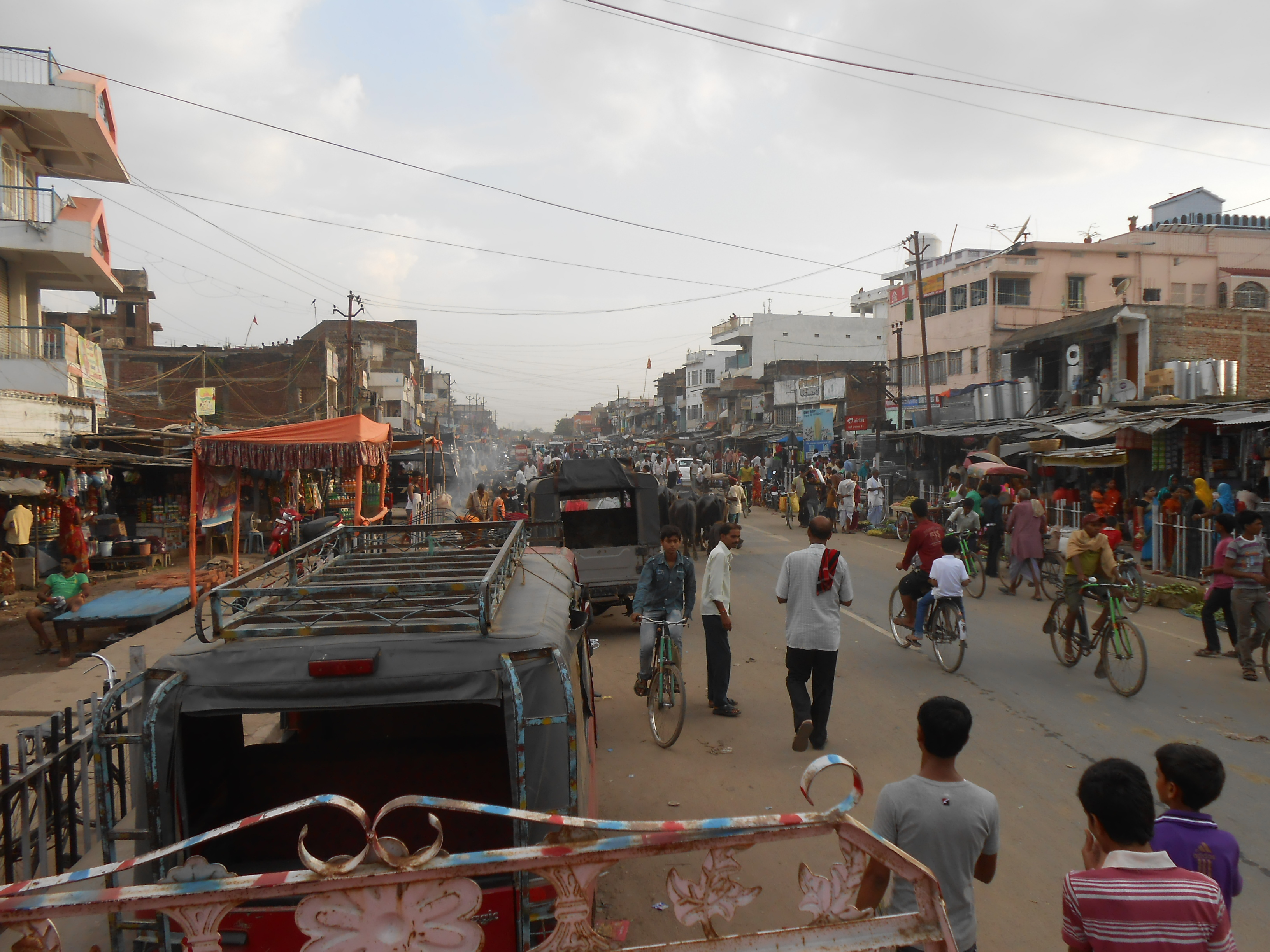 Lakhisarai